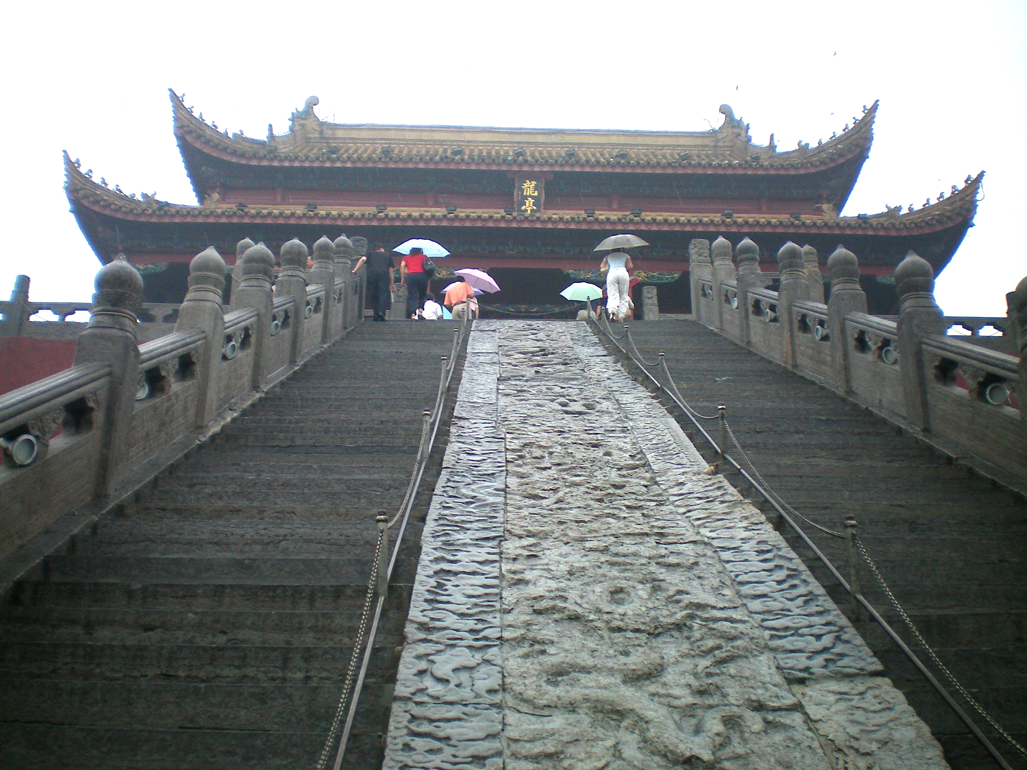 Dragon Pavilion is the main part of Dragon Pavilion Park located in Kaifeng